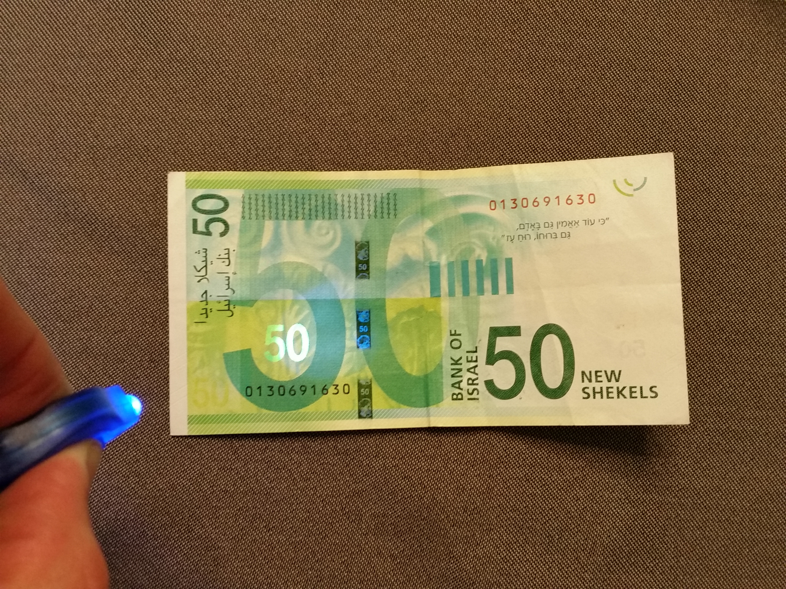 50 nis Israeli banknote with UV light